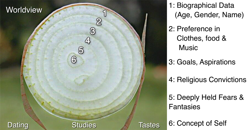 An Onion's layers used as a metaphor for the Social Penetration Theory. Original Onion image can be found here